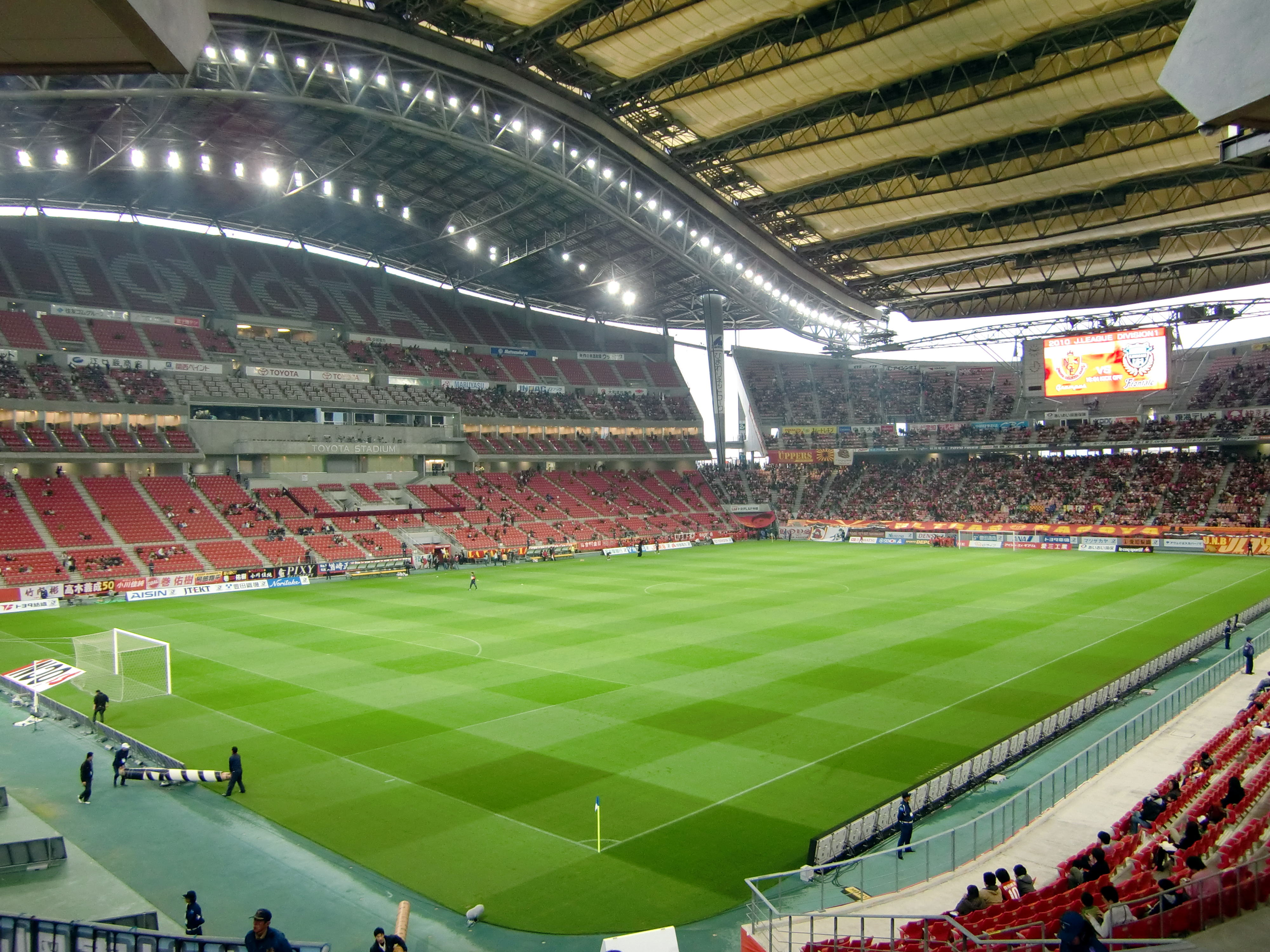 Toyota Stadium. Toyota-city,Aichi-Pref,Japan